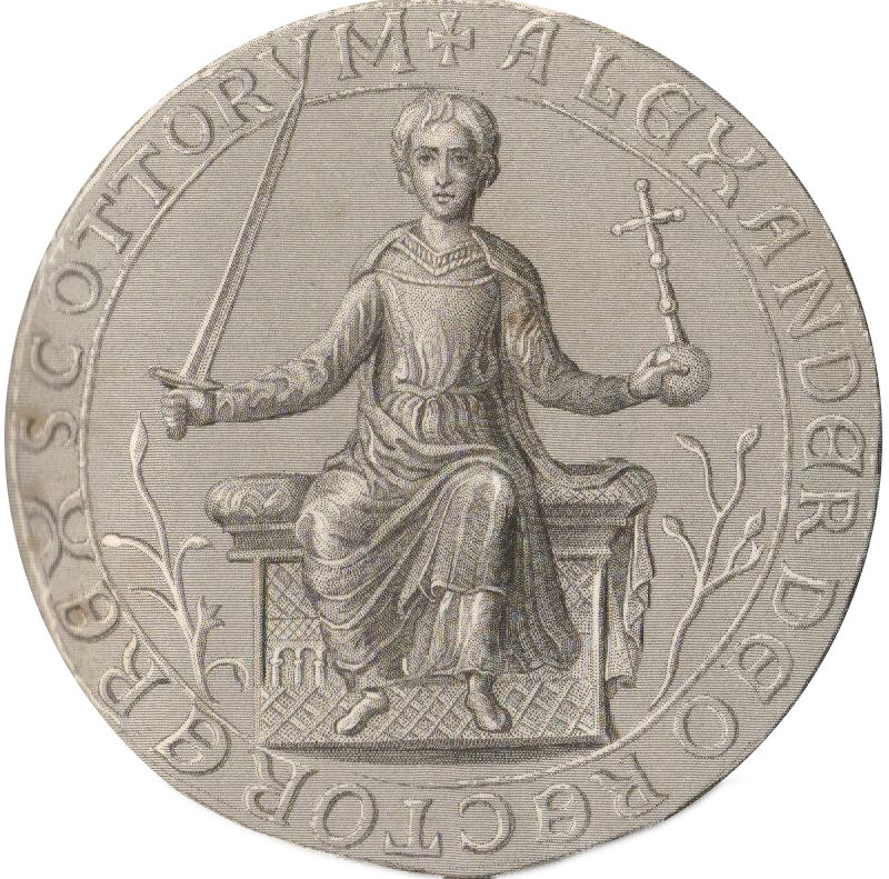 Steel engraving and enhancement of the Great Seal of Alexander II, King of Alba (Scotland).